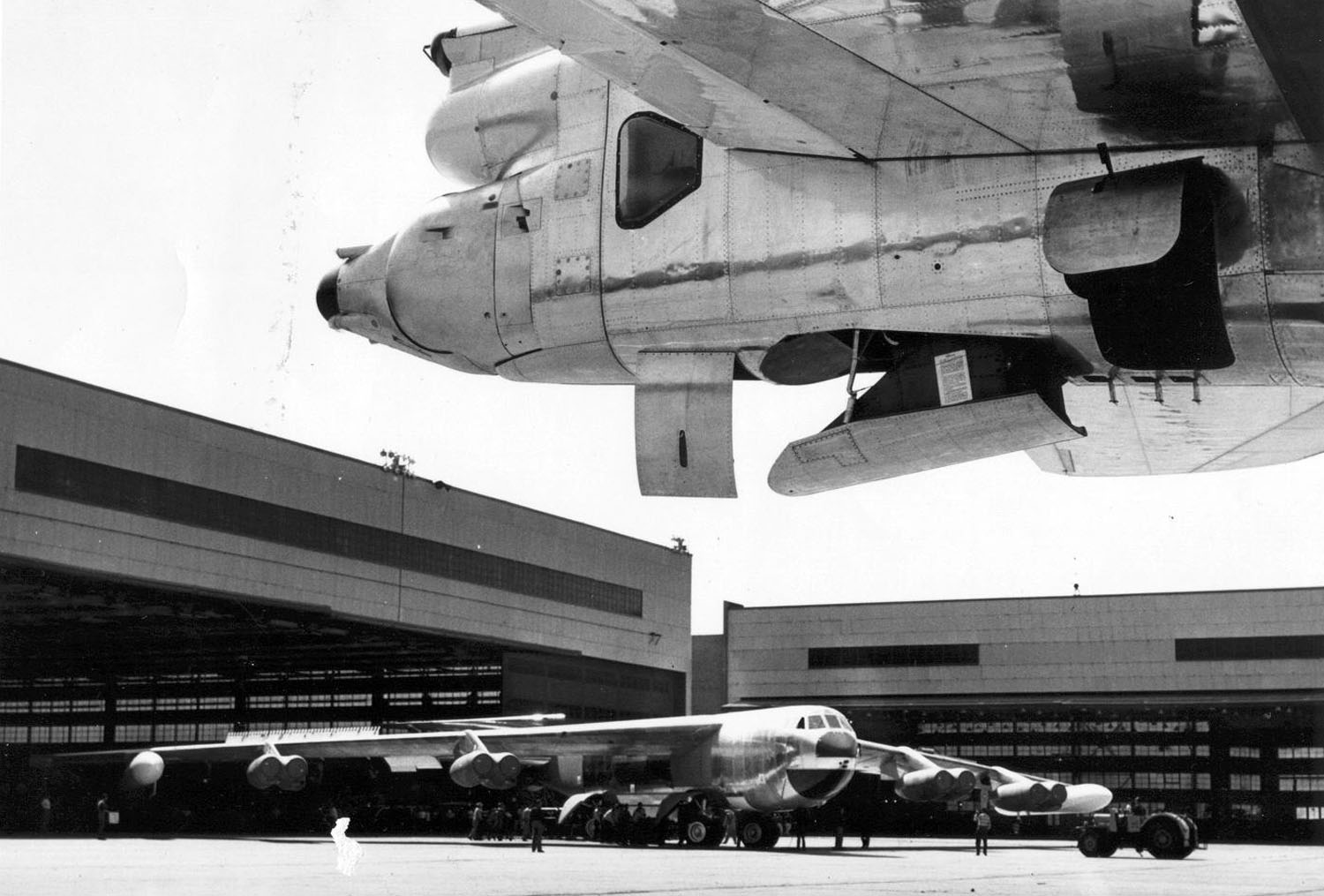 Boeing B-52F roll-out and tail detail